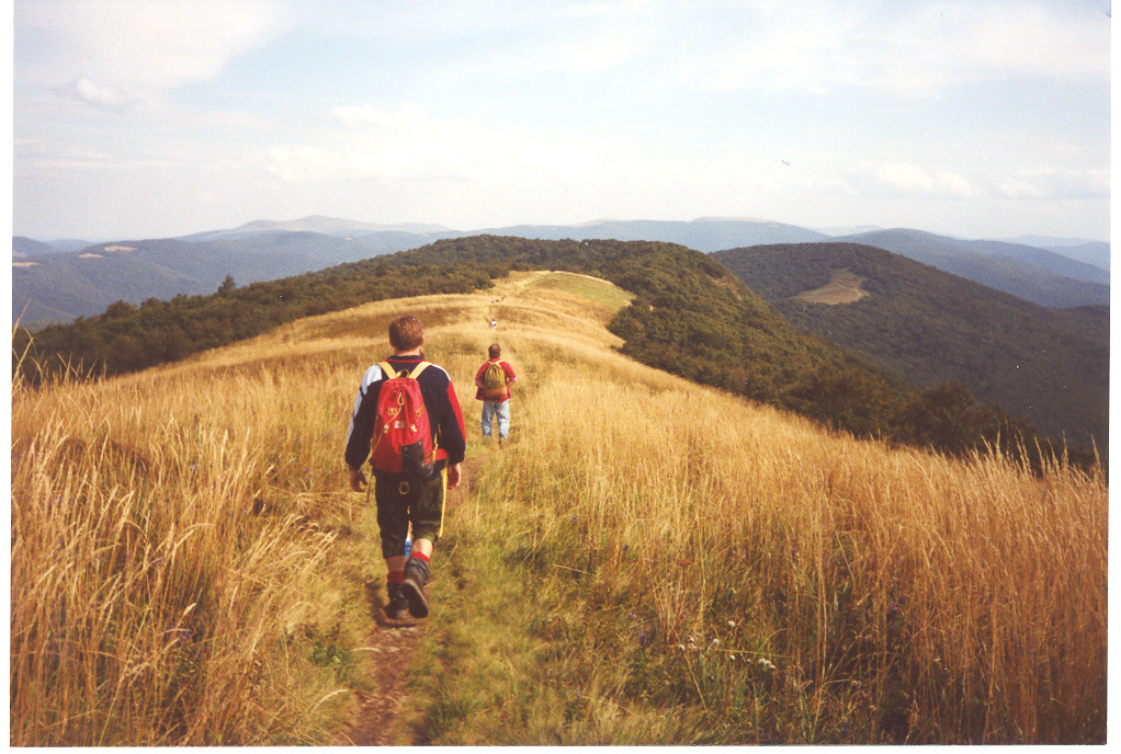 Ďurkovec National park Poloniny Slovakia